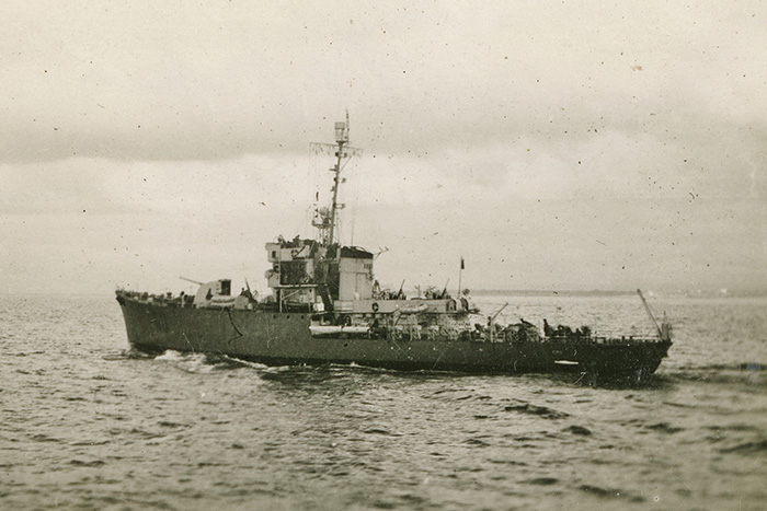 ITA C 18 Gru DG MG